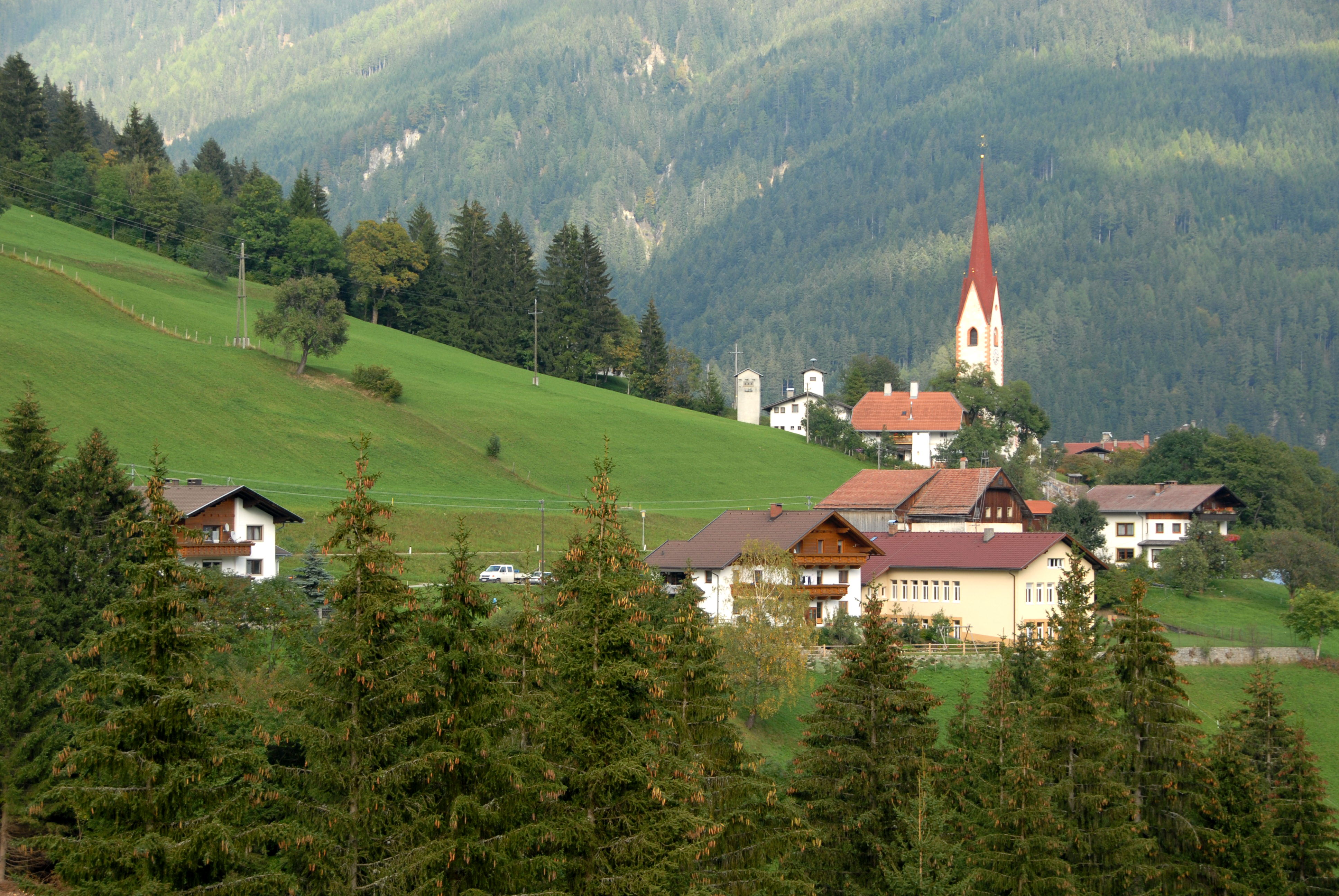 Western view of the mountain village Zwickenberg, market town Oberdrauburg, district Spittal an der Drau, Carinthia, Austria, EU